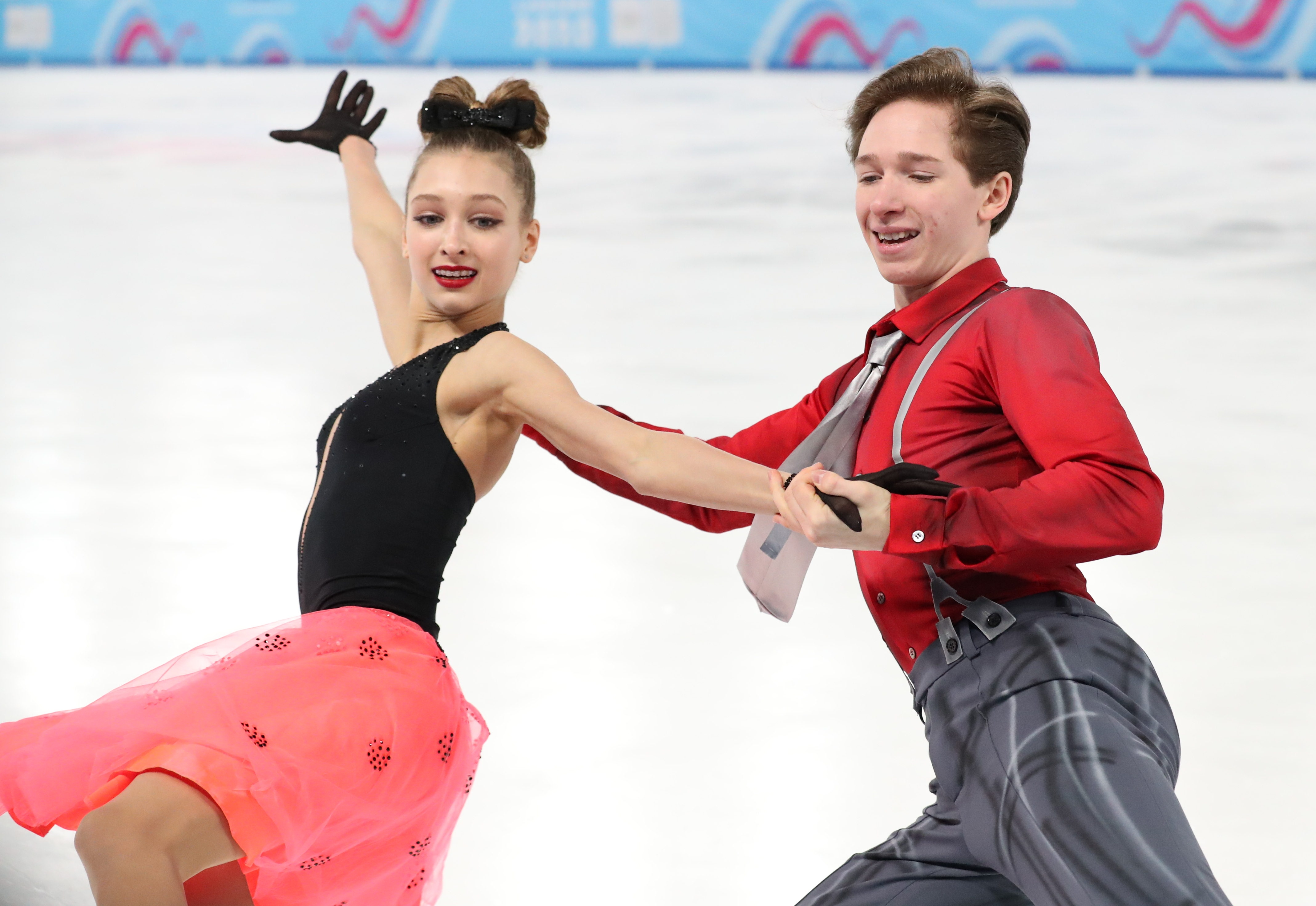 Ice Dance Rhythm Dance at the 2020 Winter Youth Olympics in Lausanne